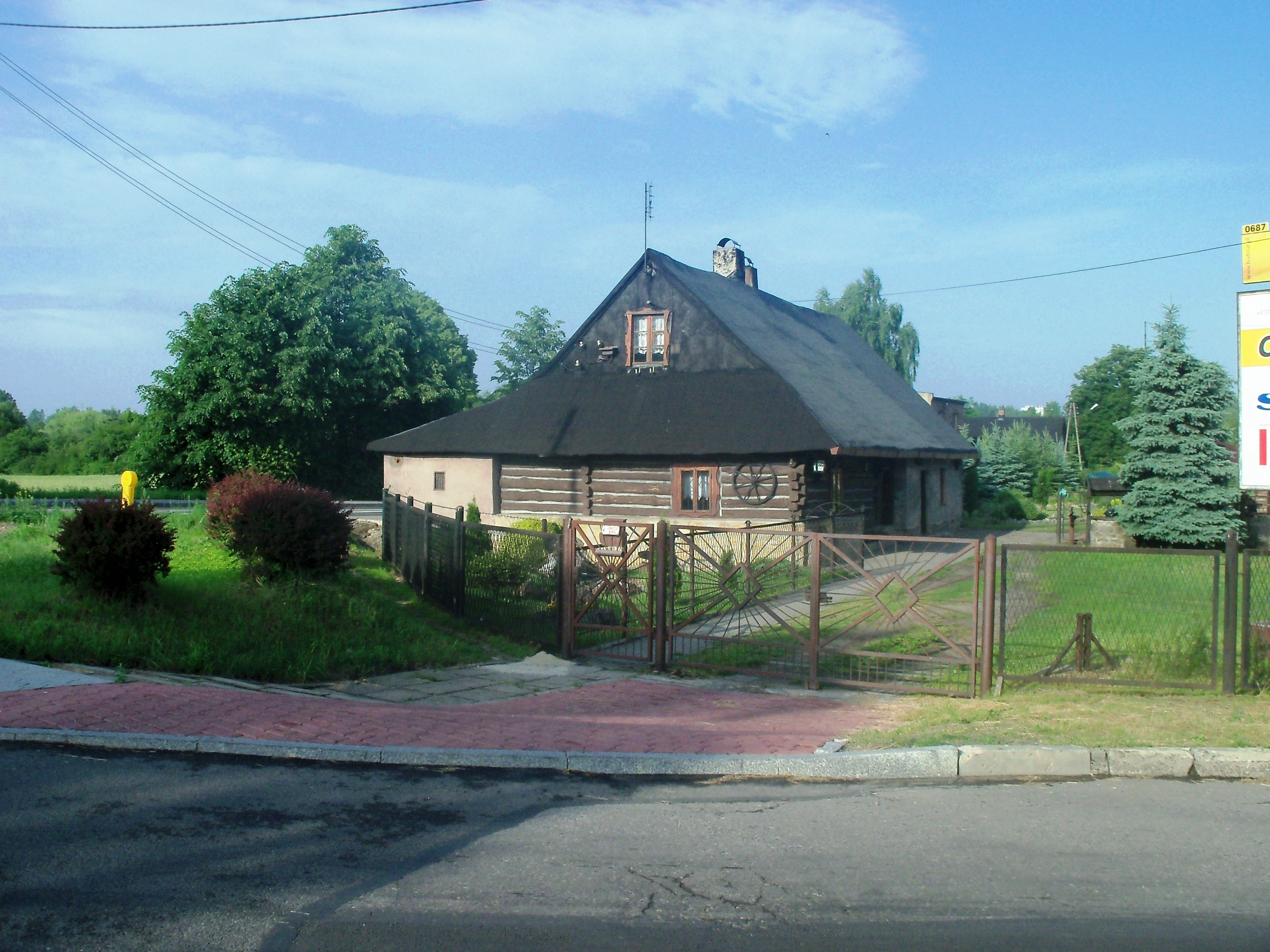 Oswobodzenia Street in Katowice